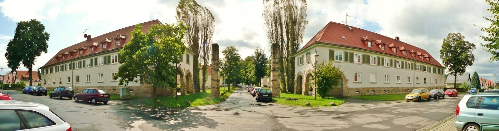 Pirna-Südvorstadt: view into the Franz-Schubert-Straße.